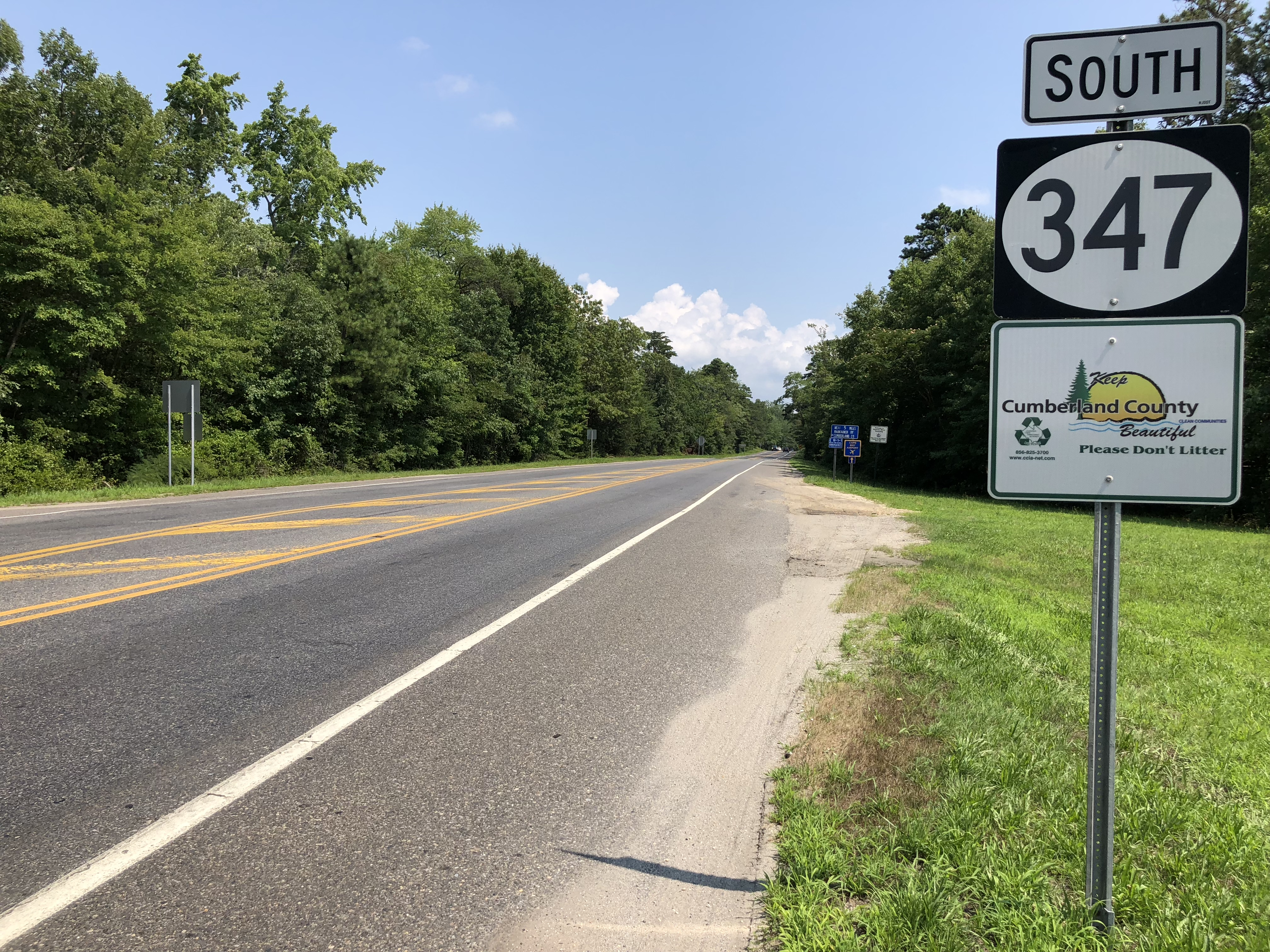 View south along New Jersey State Route 347 (New Stage Road) just south of New Jersey State Route 47 (Delsea Drive) in Maurice River Township, Cumberland County, New Jersey